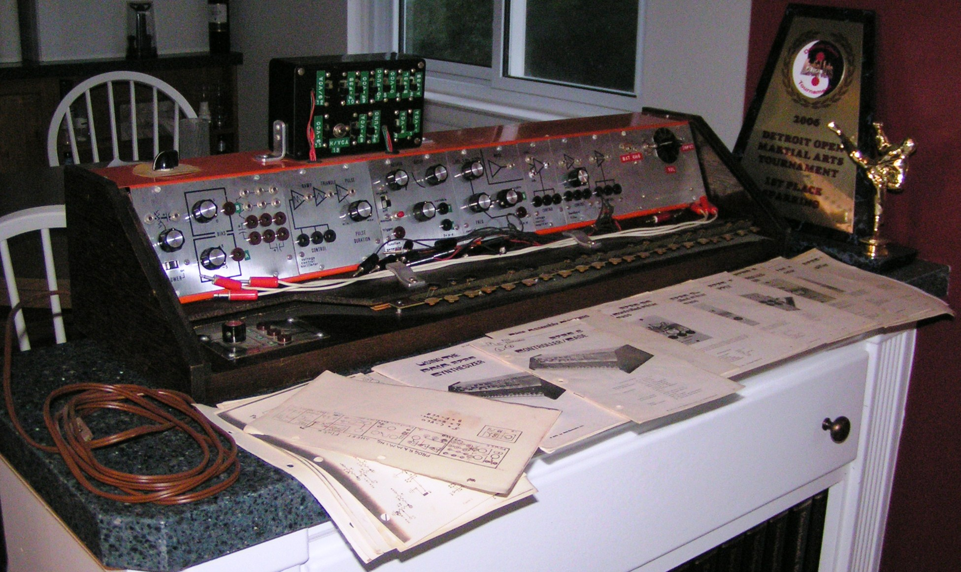 A PAIA 2700 Kit Synthesizer built by Arnold A.W. Berndt of Birmingham Michigan in 1972. Kit has been modified by the builder to include a patch-panel of switches eliminating patch cords, a speaker and amplifier, and rechargable battery power. Now housed in the Stearns Collection at the University of Michigan in Ann Arbor.